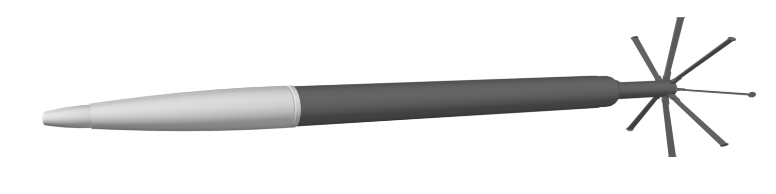 R-4M "Orkan" german rocket.